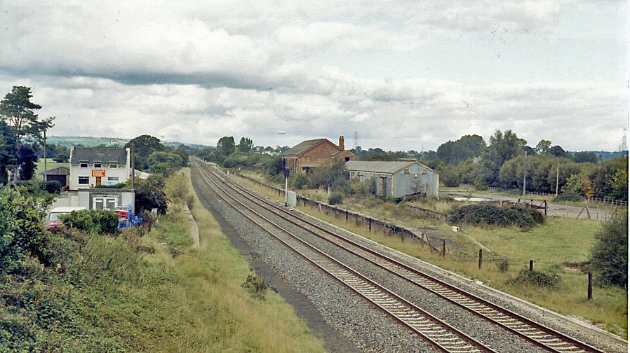 Site of Cullompton station. View northward from the A38 bridge, towards Taunton and Bristol/London: ex-GWR Taunton etc. - Exeter etc. trunk line. The station was closed 5/10/64 (goods 8/5/67), but this main line remains - even if the M5 beside it takes much of the West Country traffic.